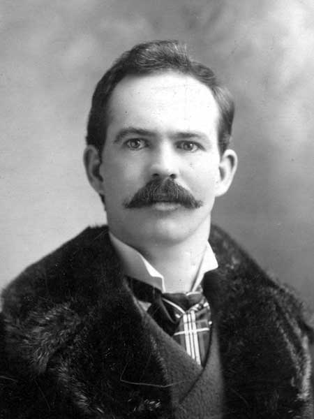 Dan Bain multi-sport athlete from Manitoba.